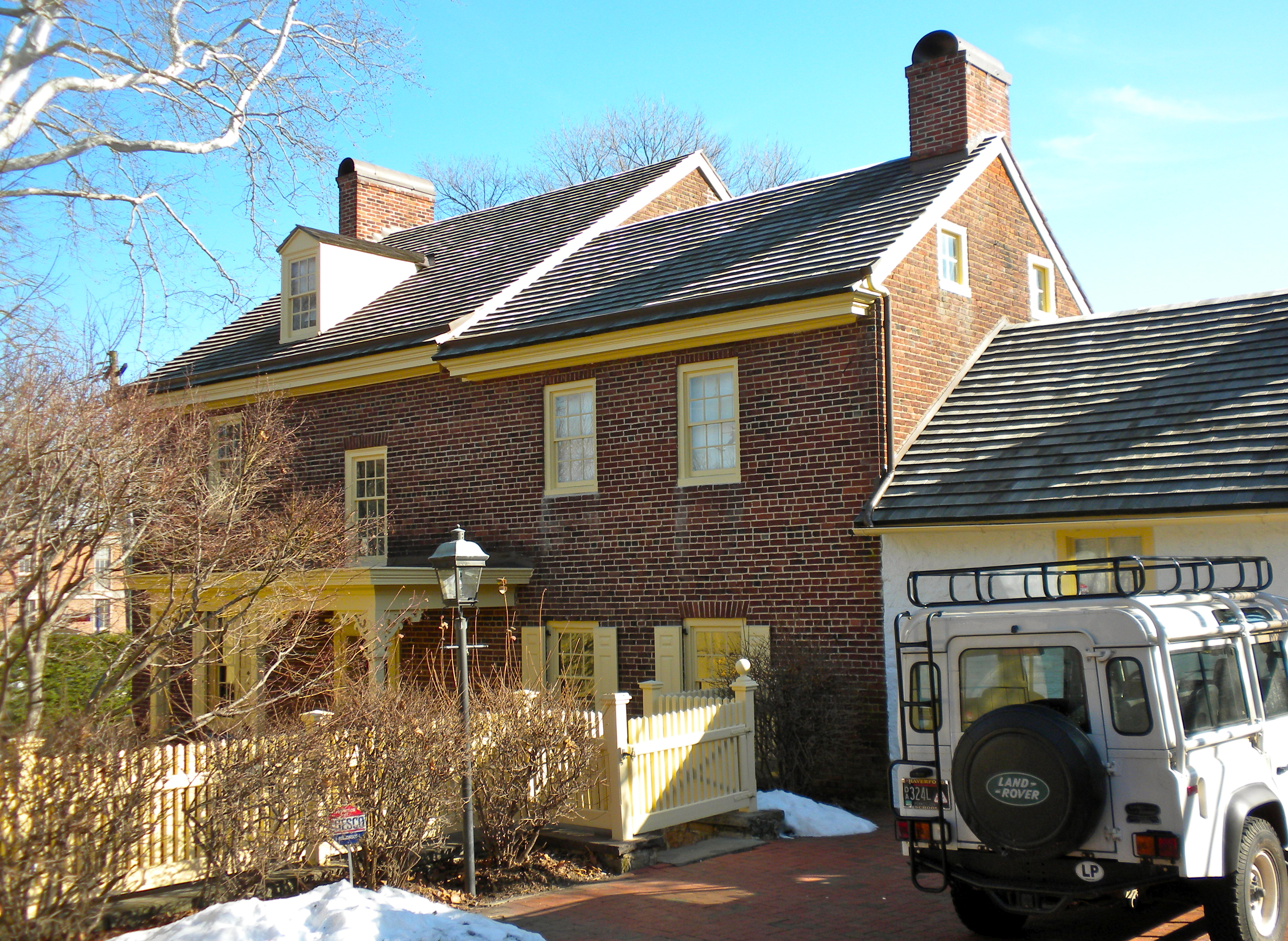 Sharples Homestead, 22 Dean Street (near South High St.), West Chester, PA. On NRHP. I donate this photo to the public domain